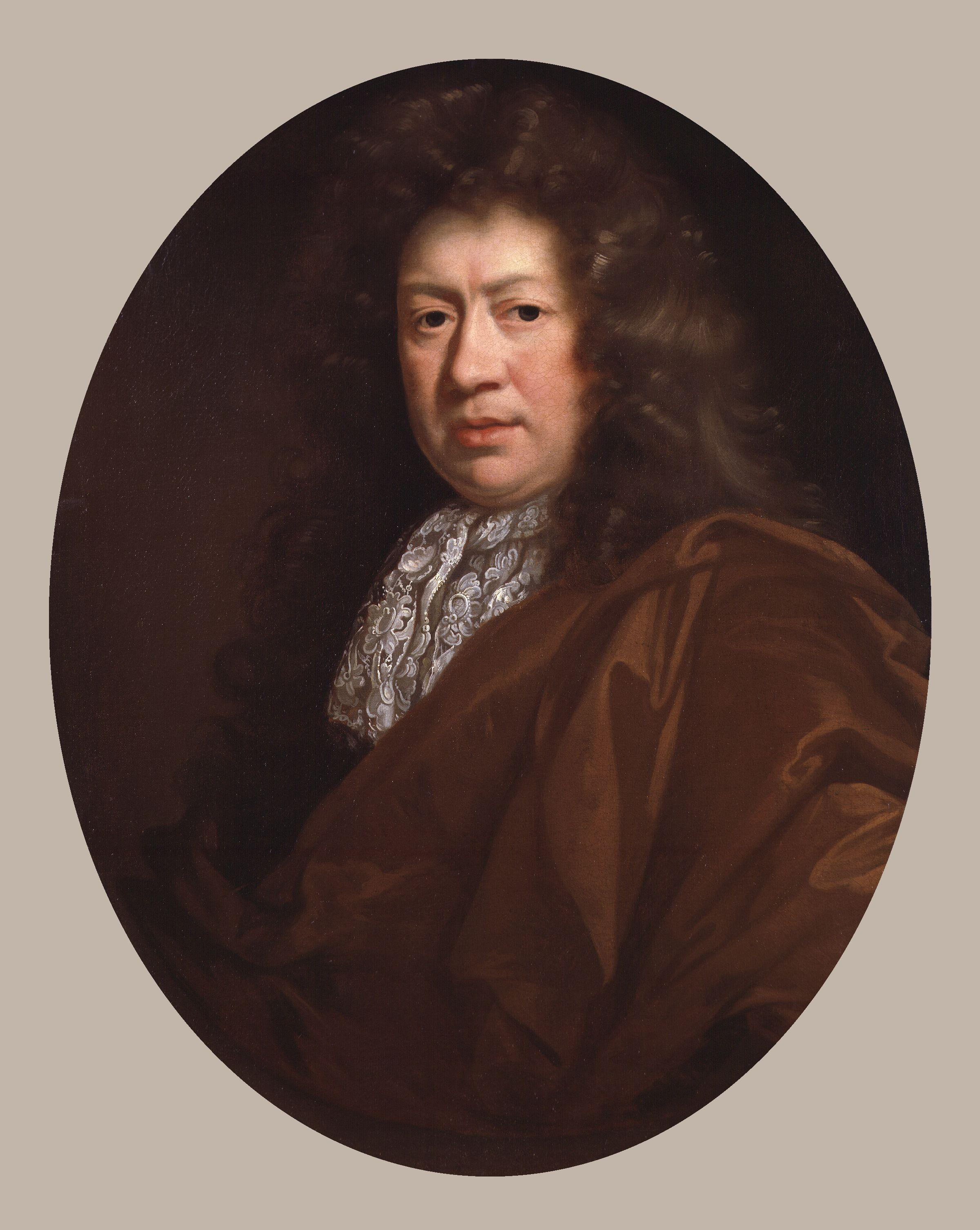 Samuel Pepys, attributed to John Riley, given to the National Portrait Gallery, London in 1925. All images in this batch have been confirmed as author died before 1939 according to the official death date listed by the NPG.